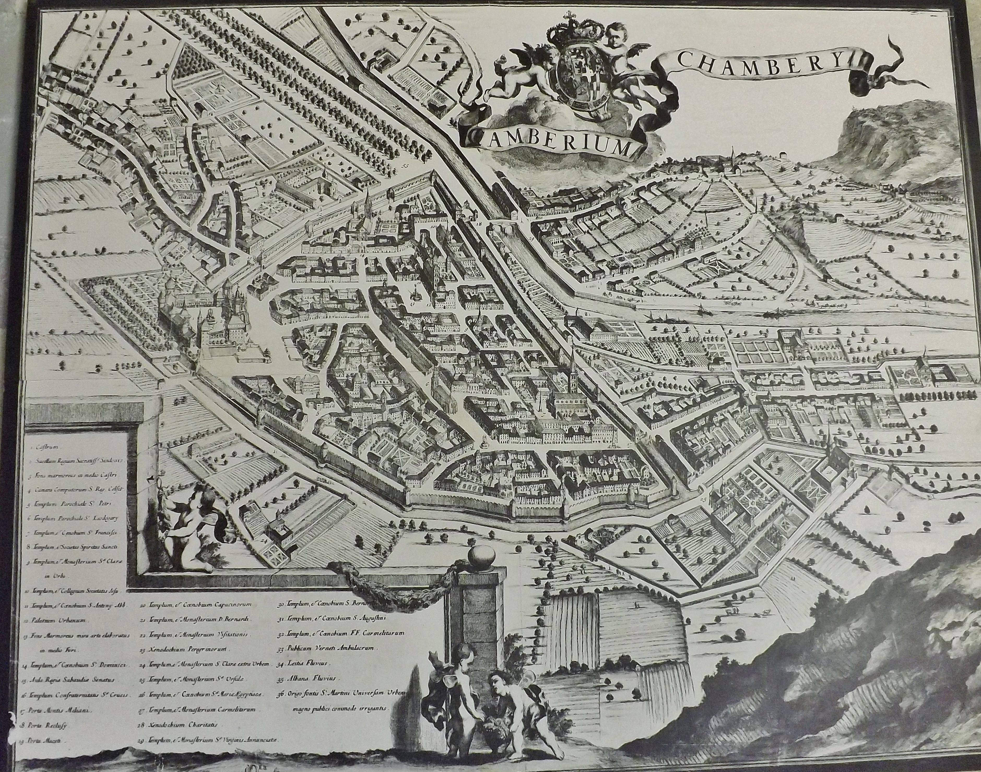 Picture of an old map of the city of Chambéry in Savoie, France, still fortified at that time.